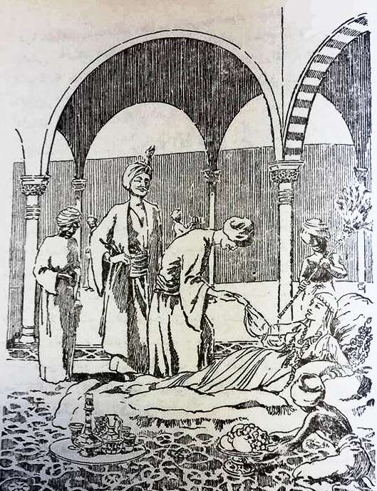 A sketch for Shajar al-Durr `Aṣmat ad-Dīn khatun, 1st sultana of Egypt and the Levant during the Mamluk era.